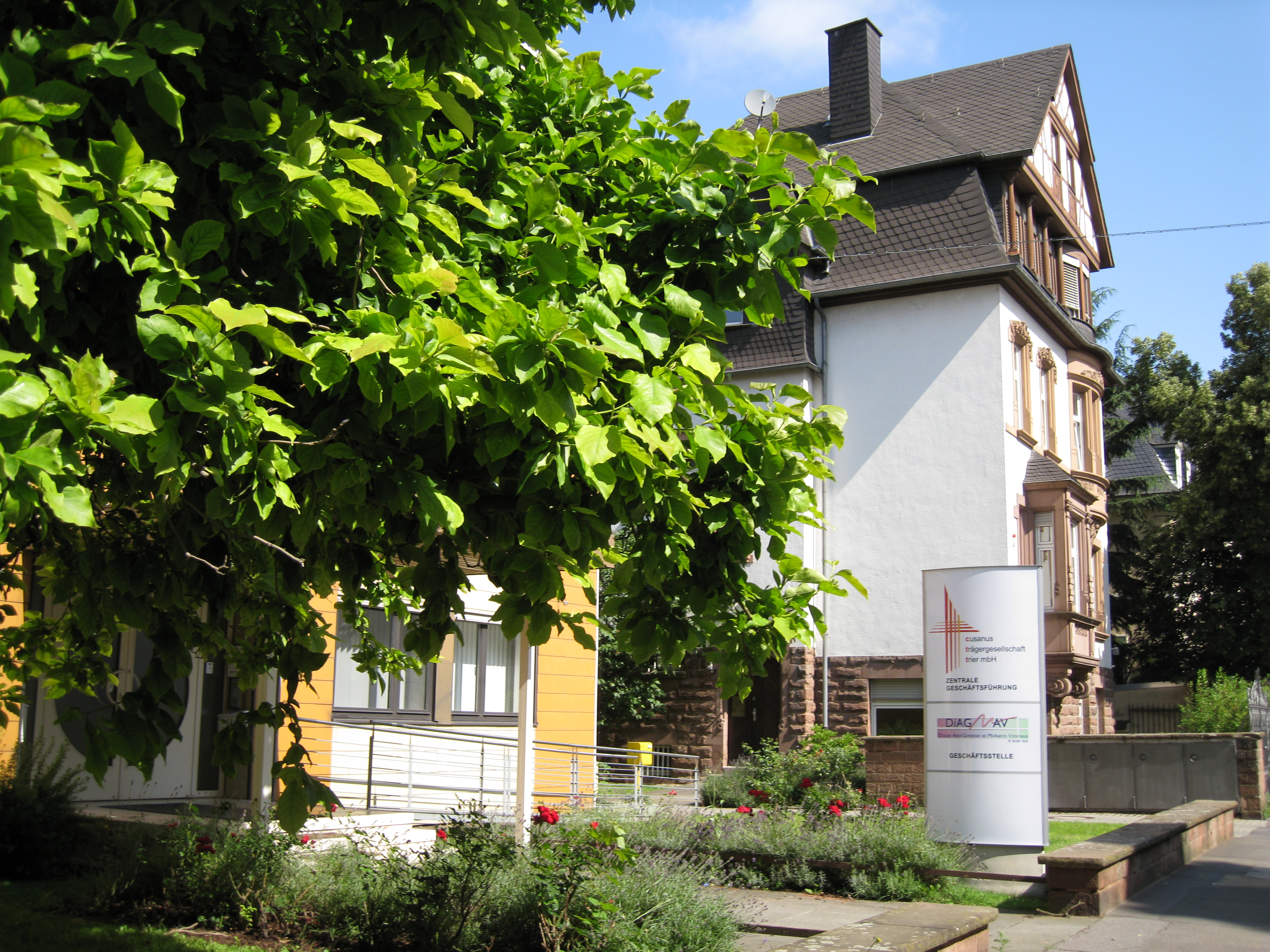 Ctt-Zentrale